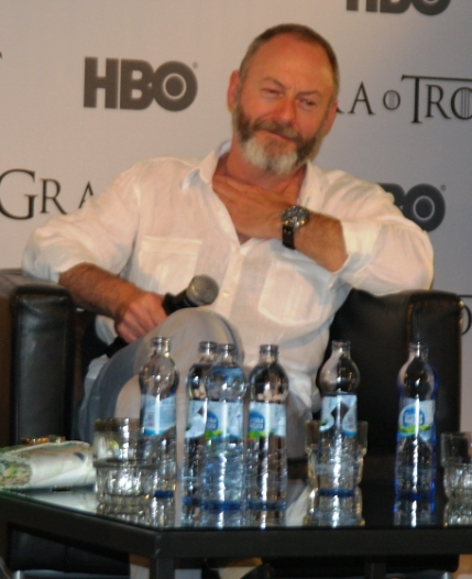 Liam Cunningham at HBO press conference in Warsaw